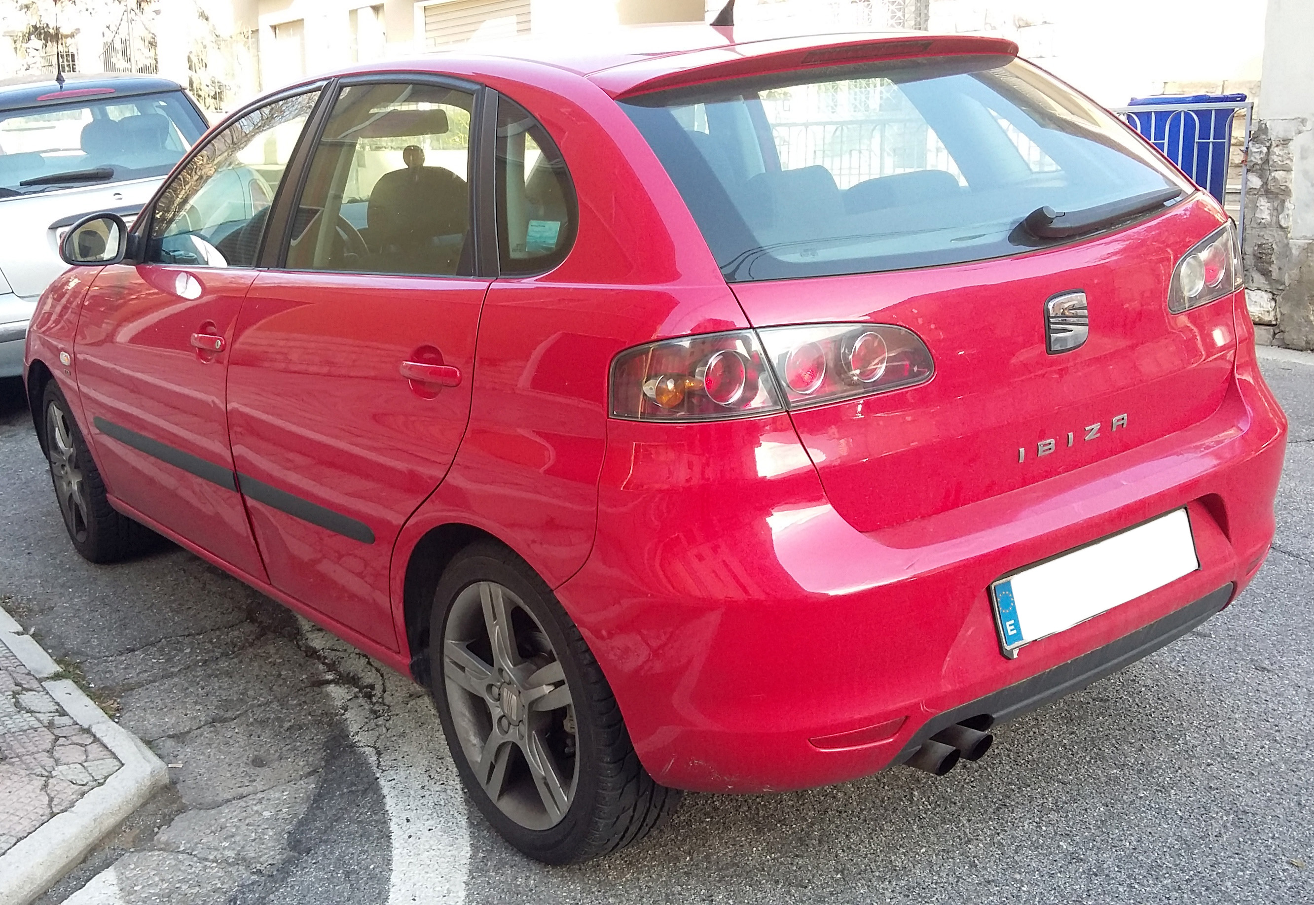 2002-2008 Seat Ibiza, rear